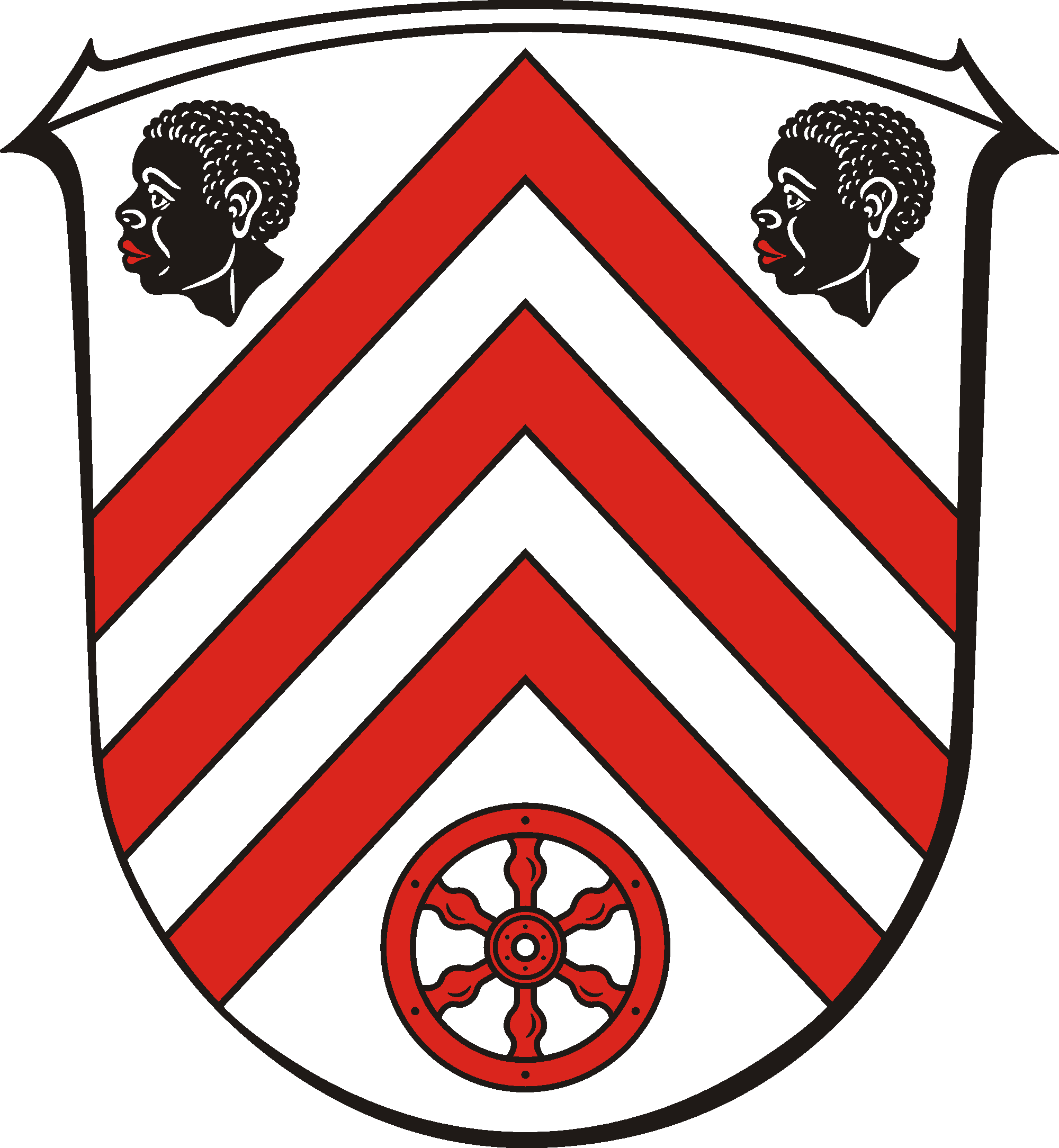 Coat of Arms of Ober-Mörlen